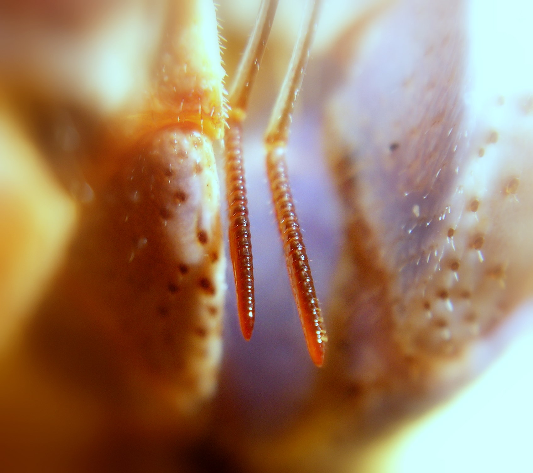 Antennule of Caribbean hermit crab